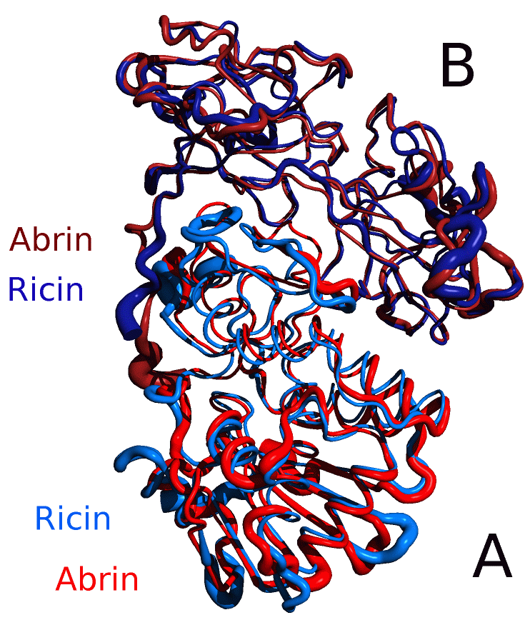 Alignment of ricin and abrin, based on X-ray structures pdb 2AAI (Ricin) and 1abr (Abrin-A)